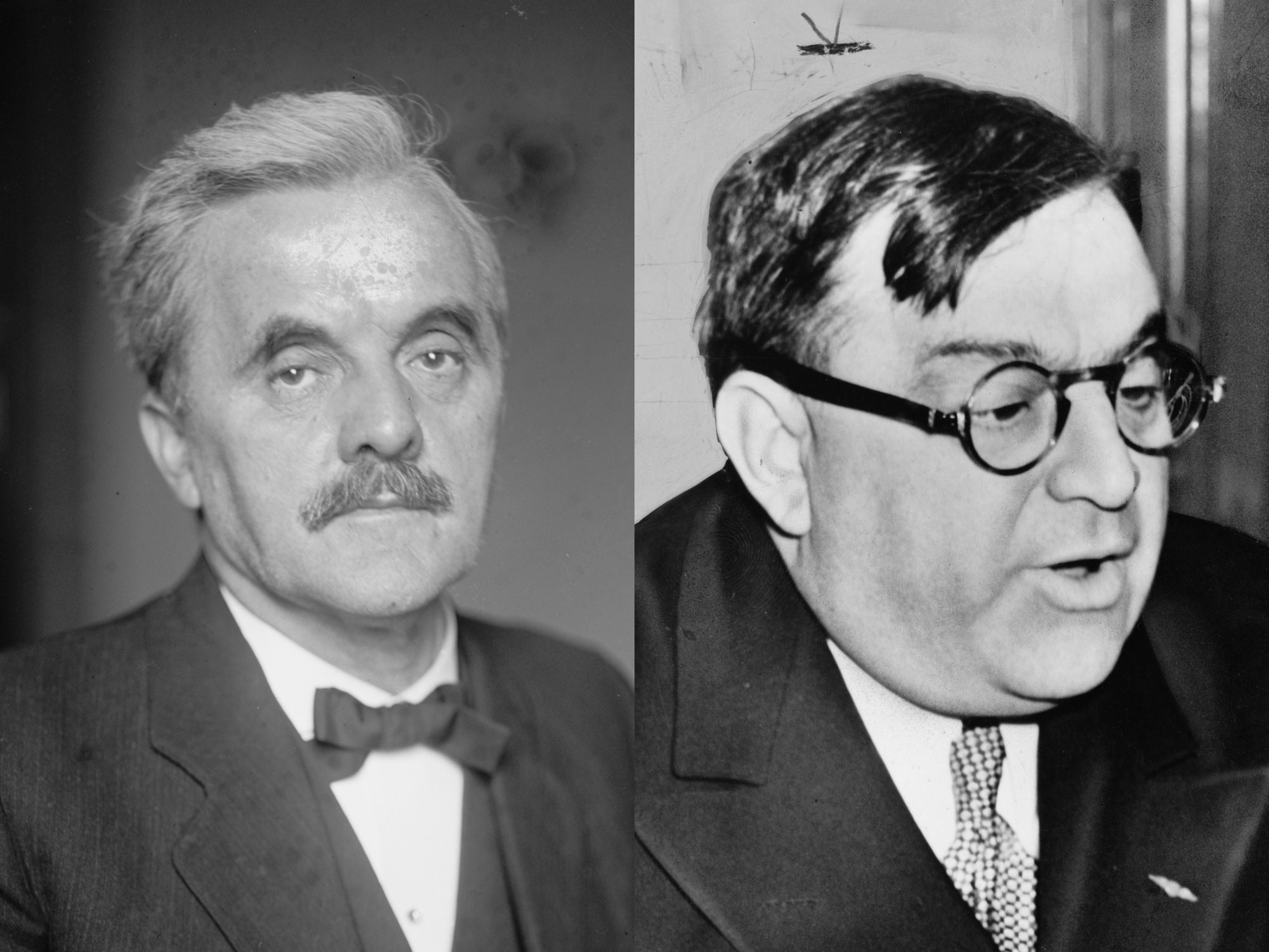 Collage of United States Congressman George W. Norris and New York City Mayor Fiorello H. LaGuardia.